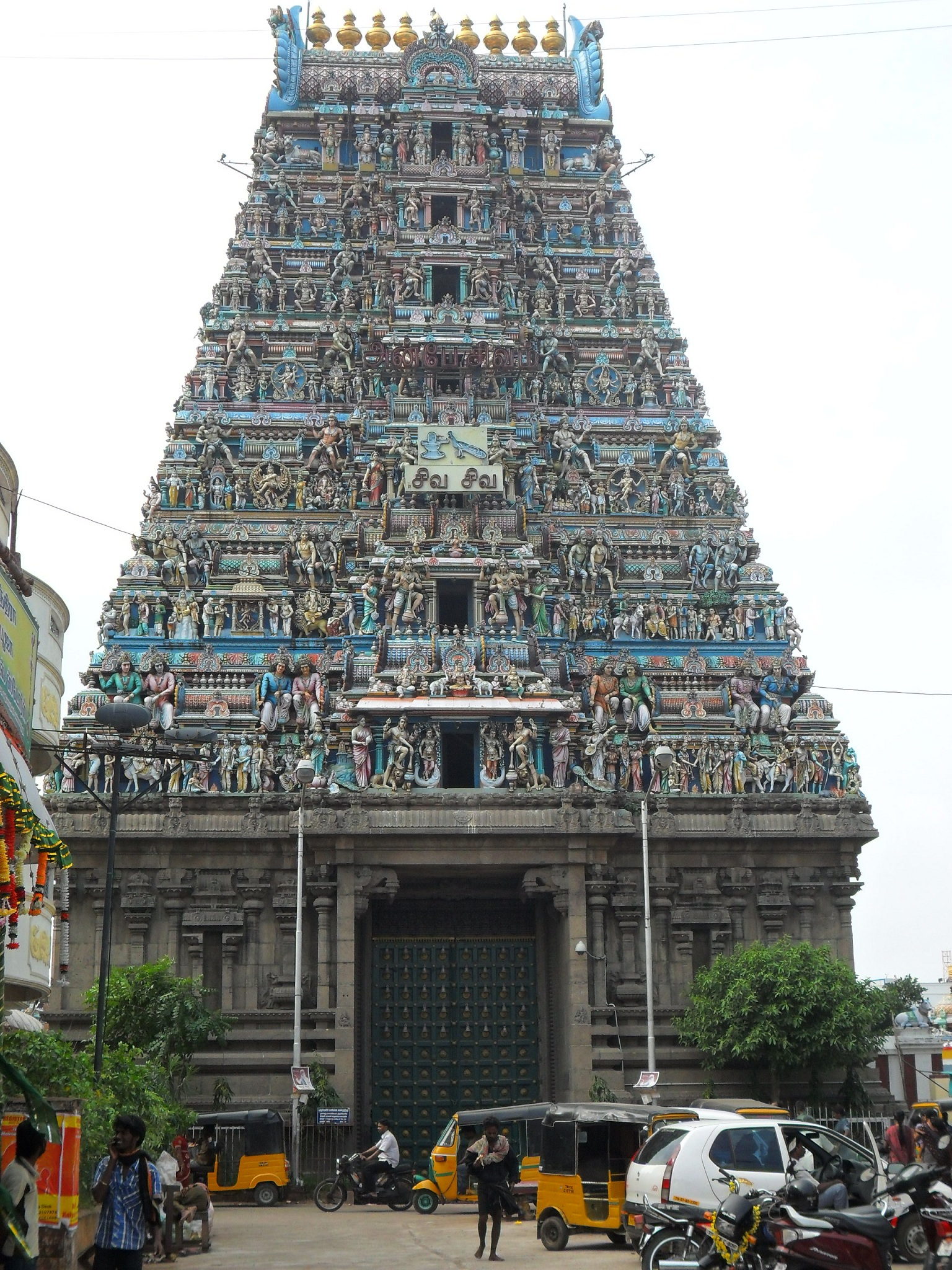 The main entrance of the Kapaleeshwarar Temple in Chennai - Madras, India